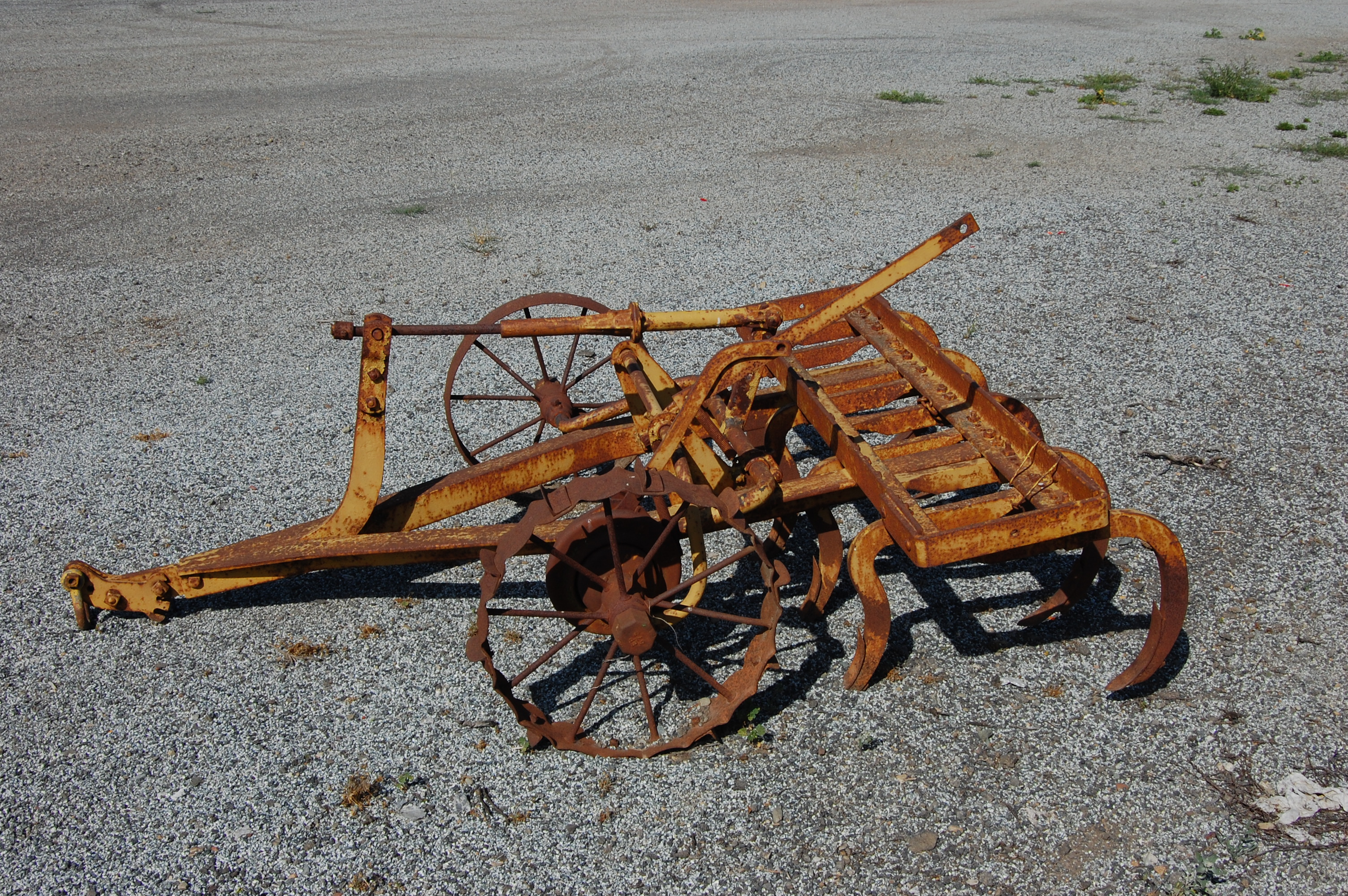 An old cultivator, made in San Jose, California (identified by User:Nemo5576).